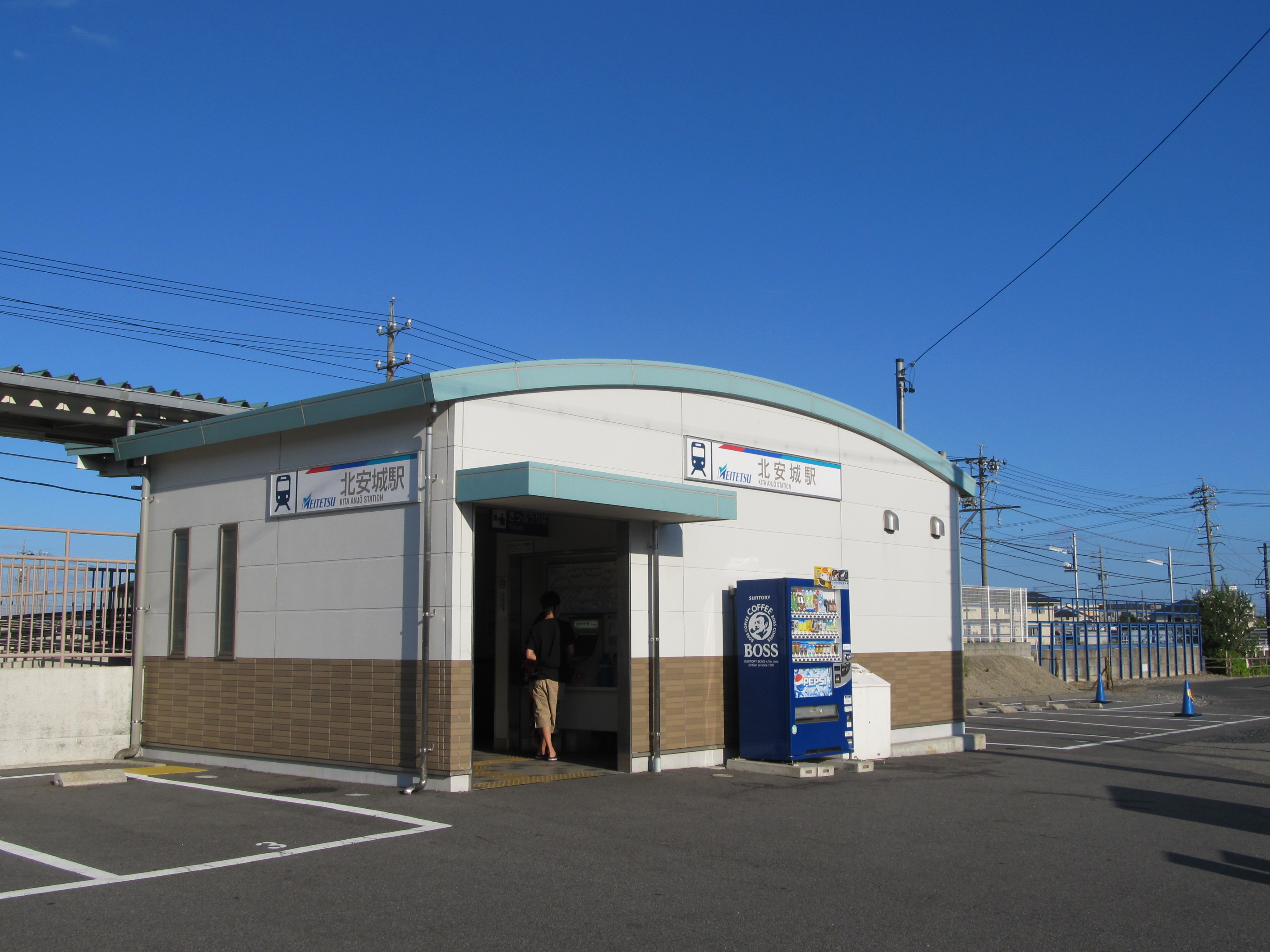 Nagoya Railroad Nishio Line Kita Anjō Station Building